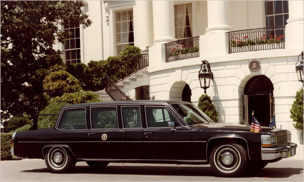 1983 Cadillac Limousine used by President Ronald Reagan